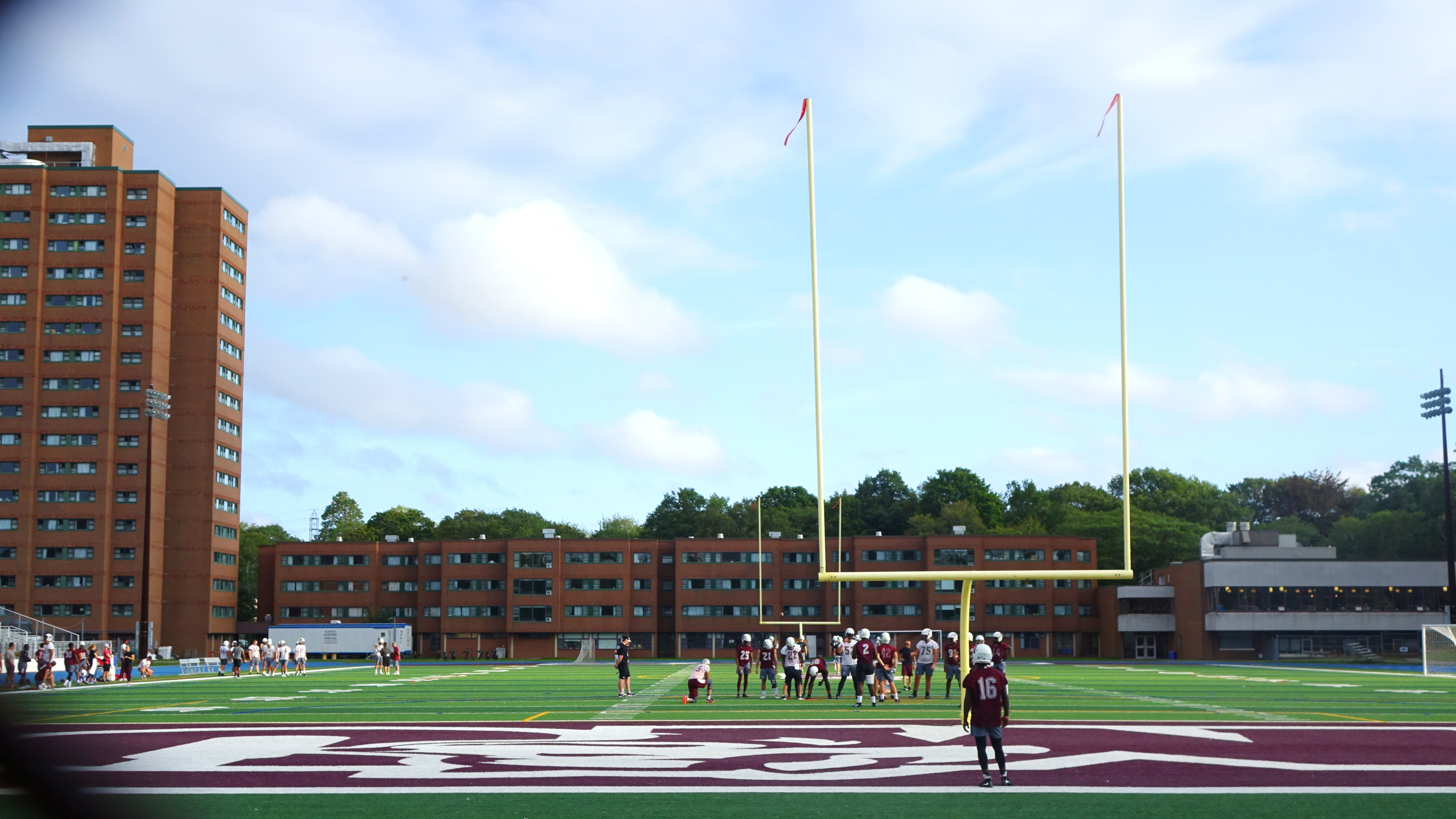 Huskies Stadium, football field of the Saint Mary's Huskies at Saint Mary's University (SMU) in Halifax, Nova Scotia, Canada. Photo taken 3 September 2018.